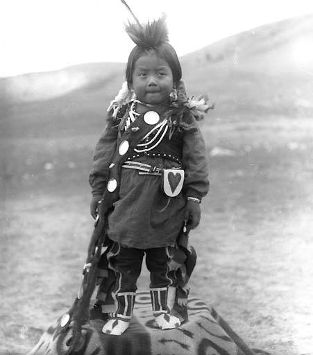 Title Nez Perce boy, Colville Indian Reservation, Washington, ca. 1903. Photographer Latham, Edward H. Studio Location United States--Washington (State)--Nespelem Date ca. 1903 Notes Young boy stands outside on blanket. He wears feathers and decorations in his hair, long shirt over leggings, beaded moccasins, necklaces, bracelet, vest, and leather pouch attached to belt. A sash with ornaments is draped across his chest. Caption on negative sleeve: Little Indian boy dolled up. Note from unidentified source: Young Nez Perce boy. Subjects Portraits--Washington (State) Nez Perce Indians--Clothing & dress Nez Perce Indians--Children Blankets Bags Location Depicted United States--Washington (State)--Colville Indian Reservation Object Type Photographs Negative Number NA1010 Collection Edward H. Latham Collection no. 409 Repository University of Washington Libraries. Special Collections Division